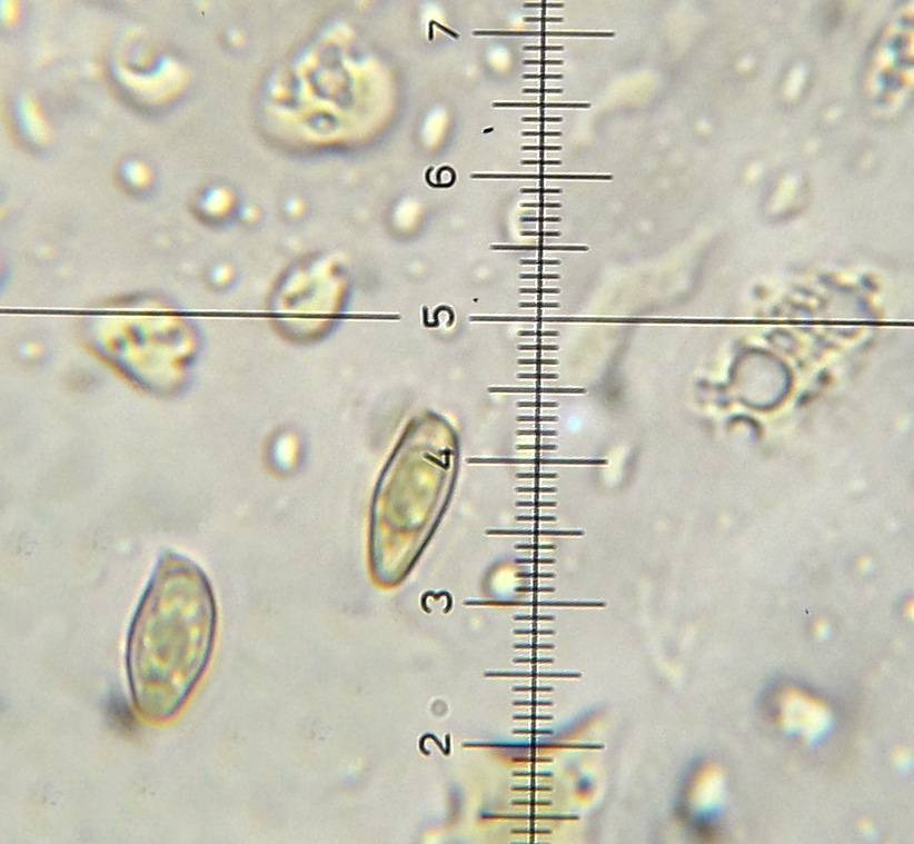 Spores of the bolete fungus Boletus curtisii Berk. "Notes: Spores 1000x, 1 micrometer divisions"